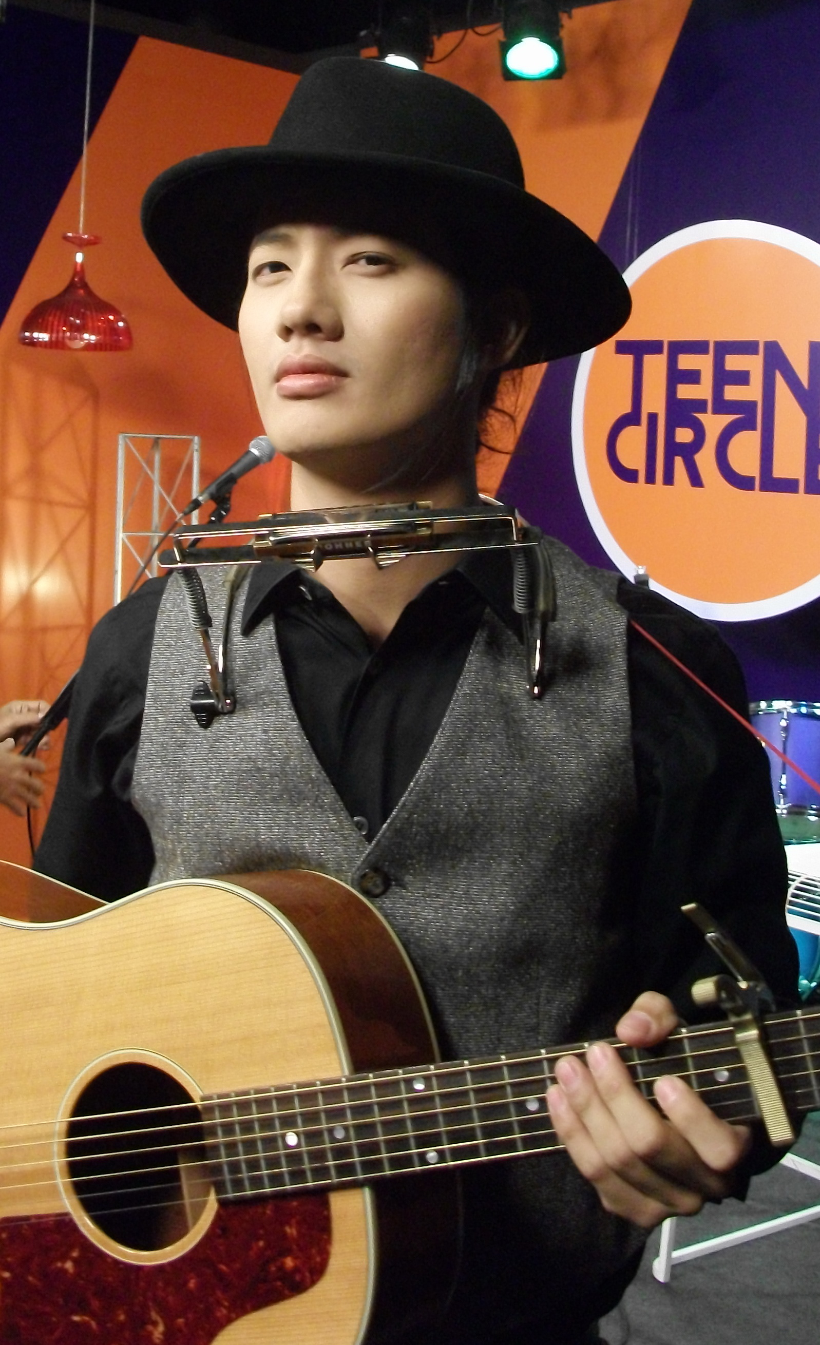 Arak Amornsupasiri at VERY TV